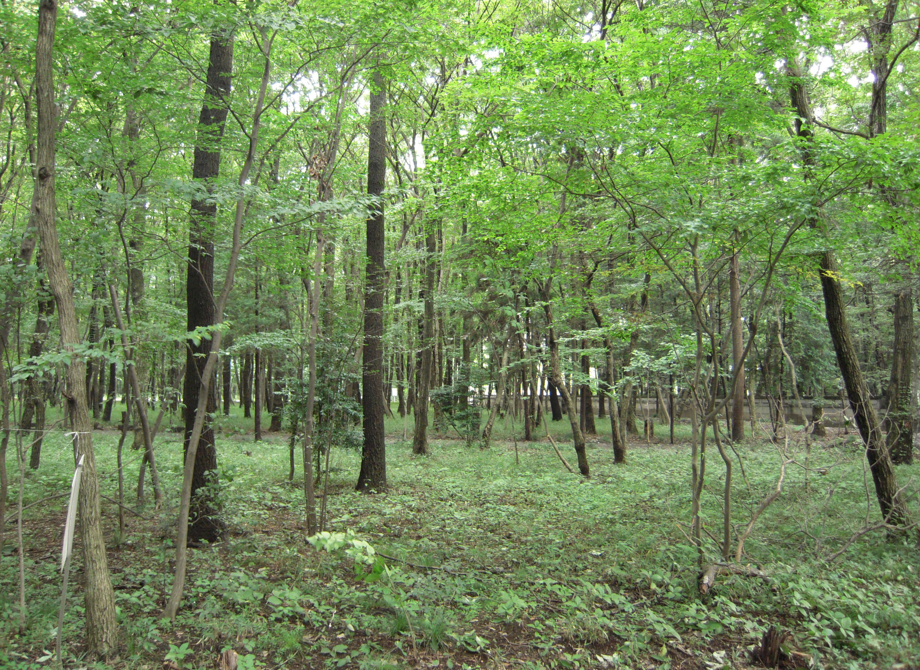 Santomeshinden, Miyoshicho, Saitama